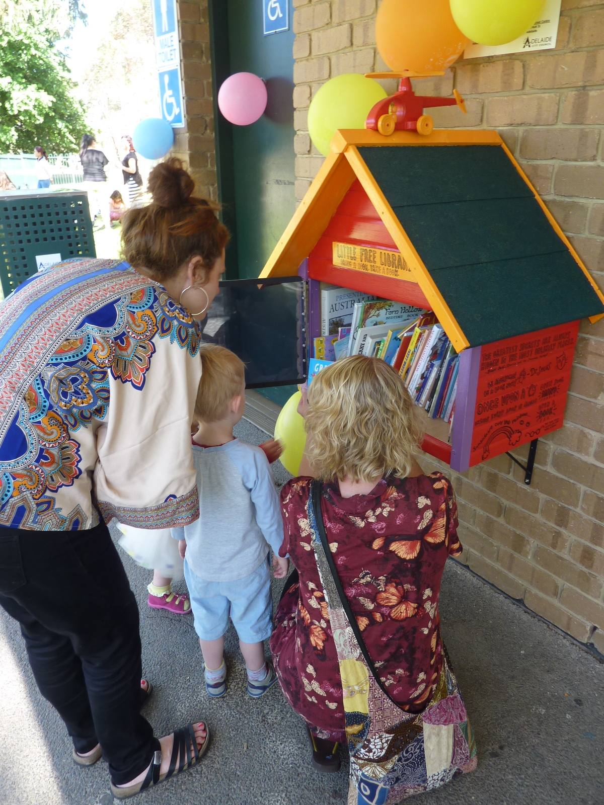 A free book-swap library for children in Glover Playground, Le Fevre Terrace, North Adelaide